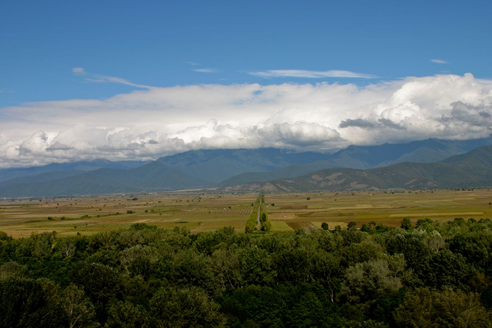 Alazani Valley, Kakheti Region, Georgia